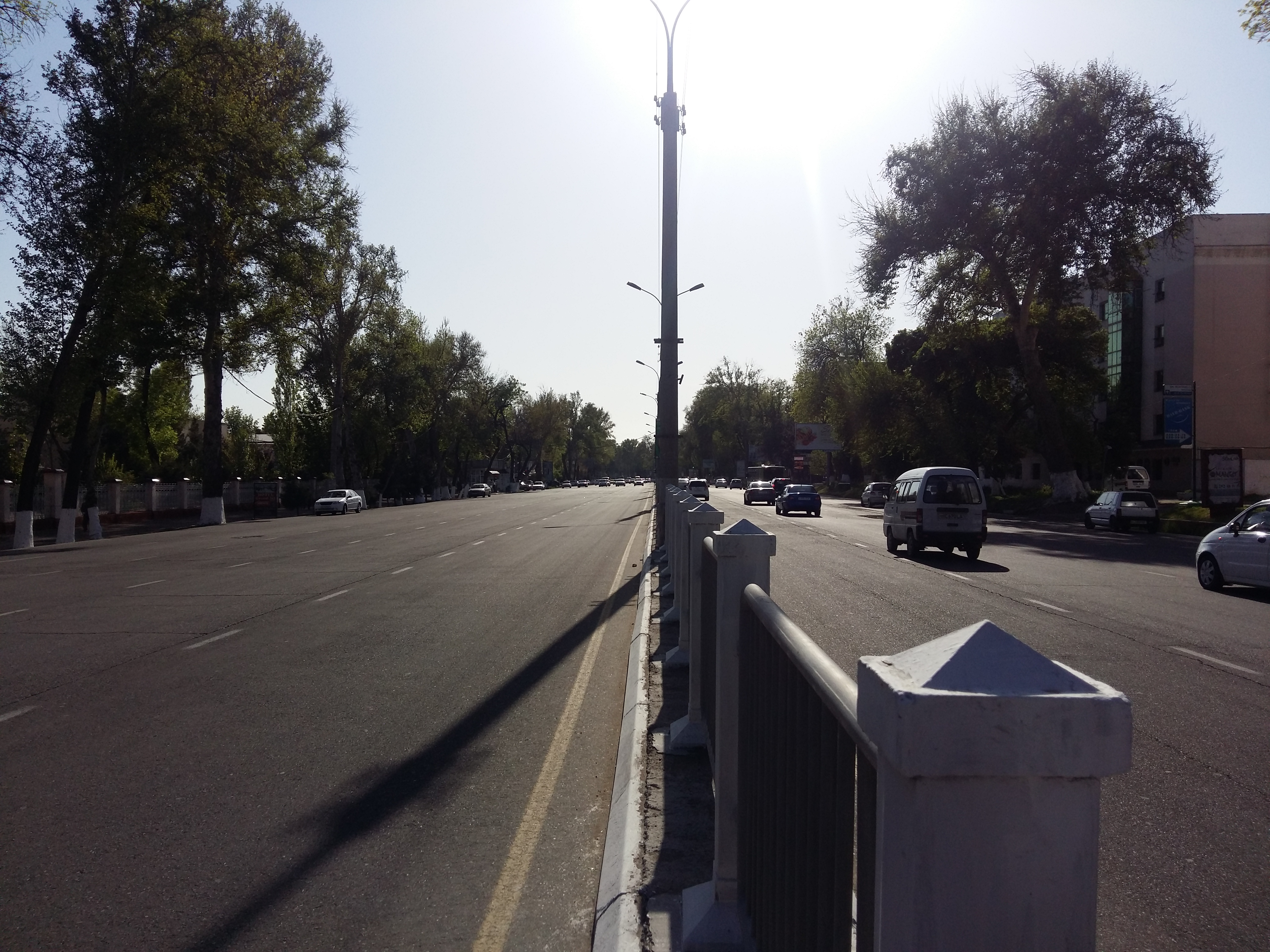 Shota Rustaveli steet in Tashkent